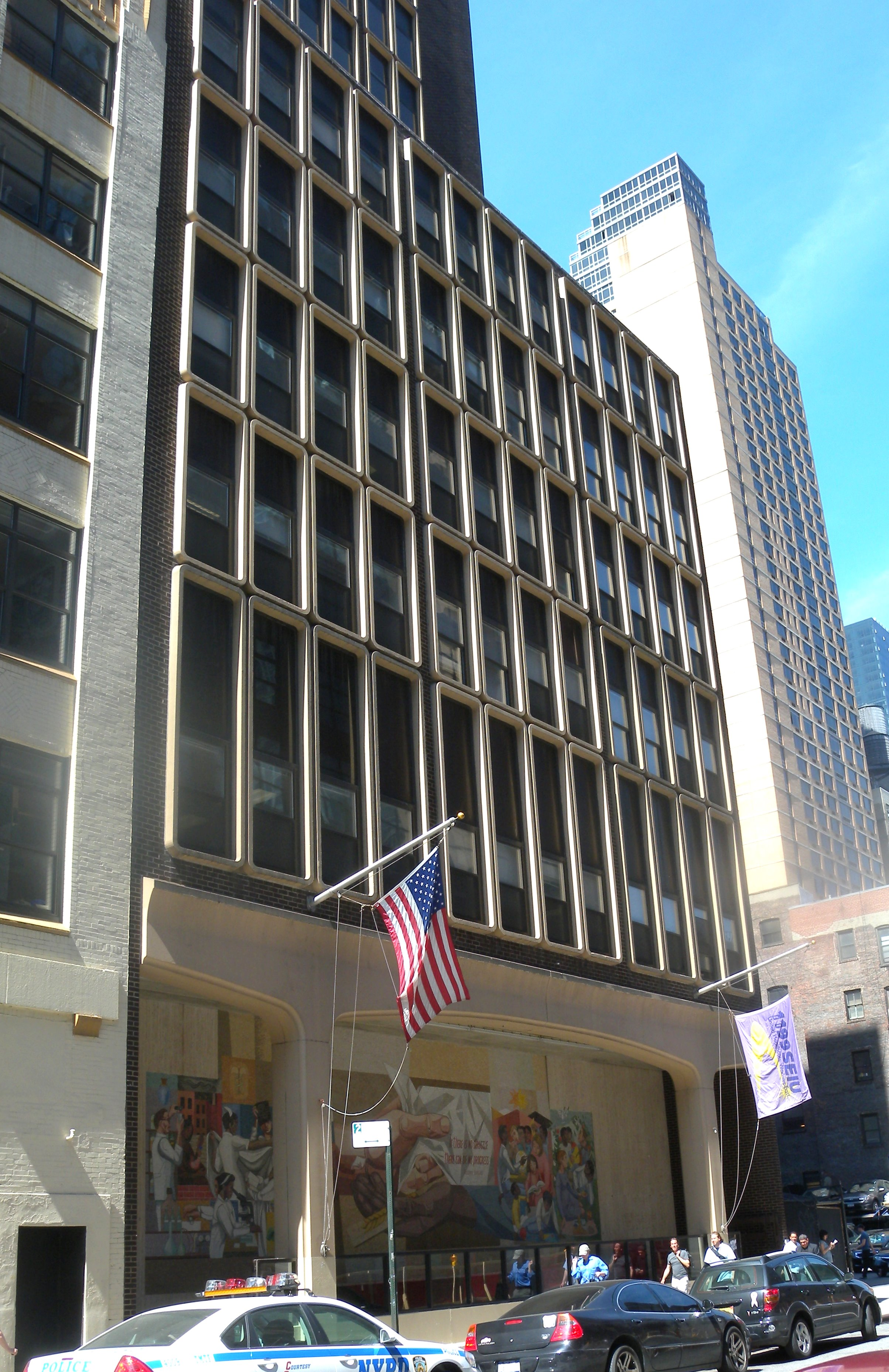 Looking west at Local 1199 HQ on a sunny morning.